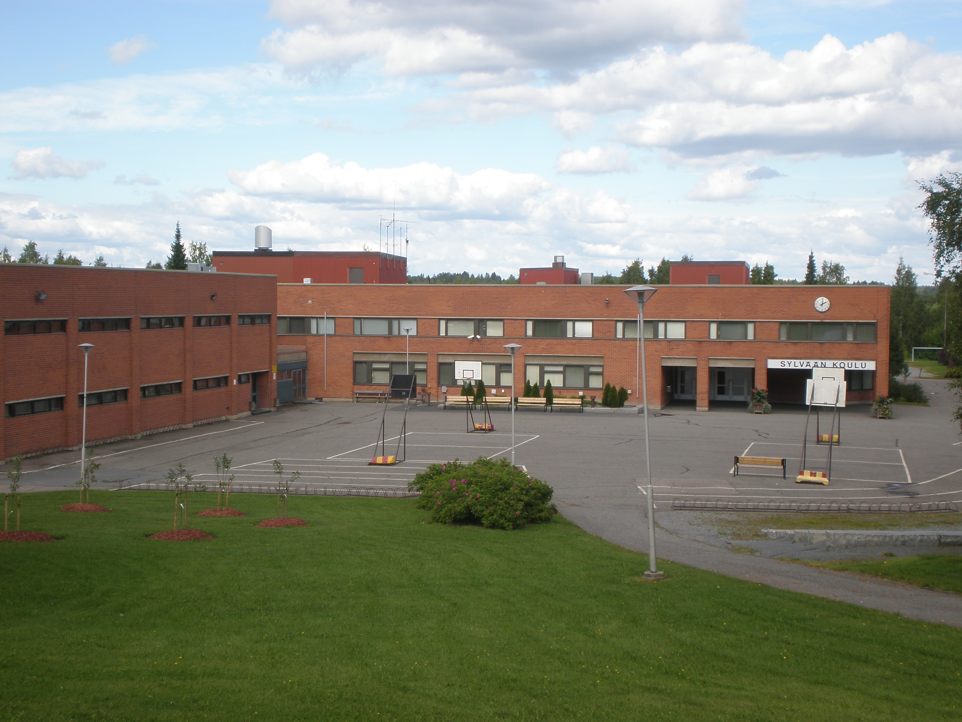 Sylvää school